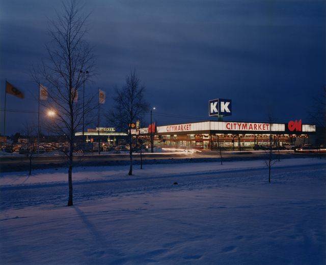 Citymarket department store in Satakunnankatu 23, Pori, Finland in December 1987.